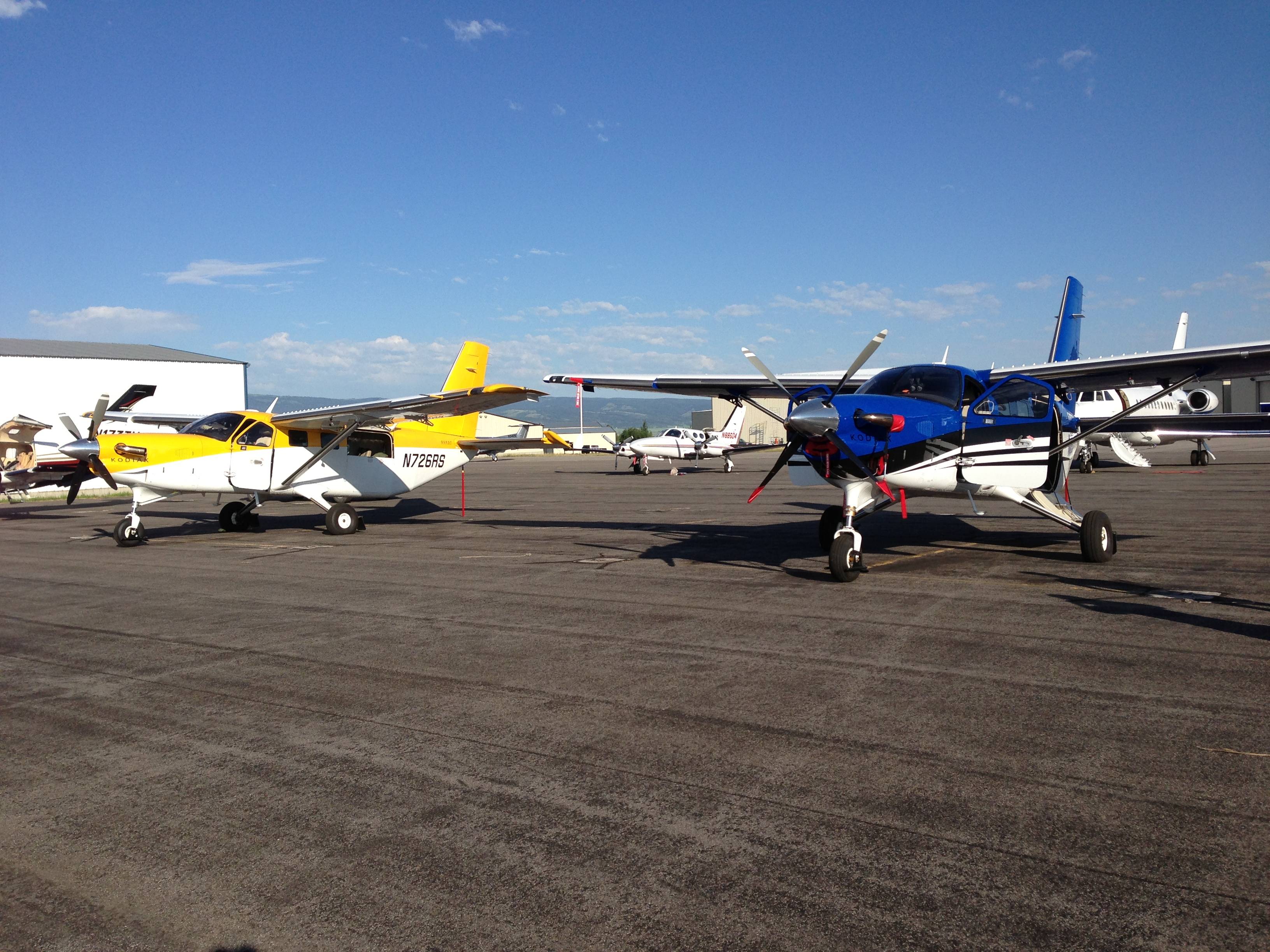 Two Quest Kodiaks and a Cessna 421 on the ground in Driggs, Idaho. Use of these private aircraft greatly enabled the 2013 FMARS expedition.